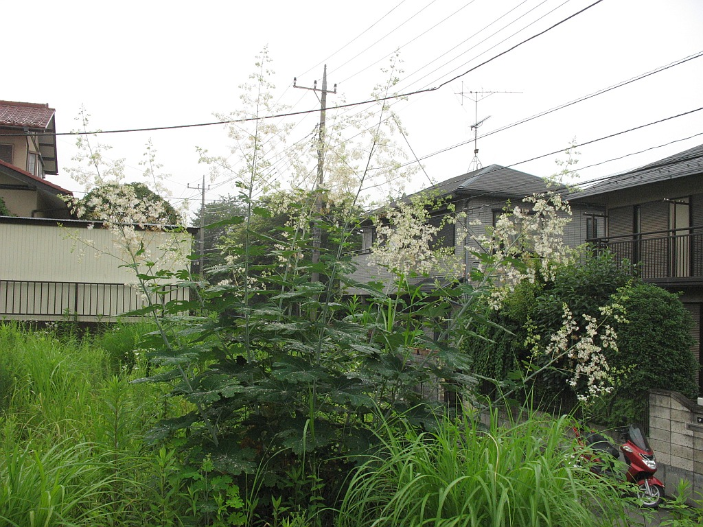 Photograph of Macleaya cordata, taken in Machida city, Tokyo, Japan.